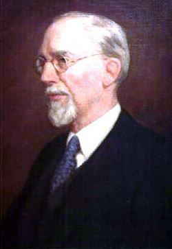 George Albert Smith, the eighth president of The Church of Jesus Christ of Latter-day Saints (LDS Church).